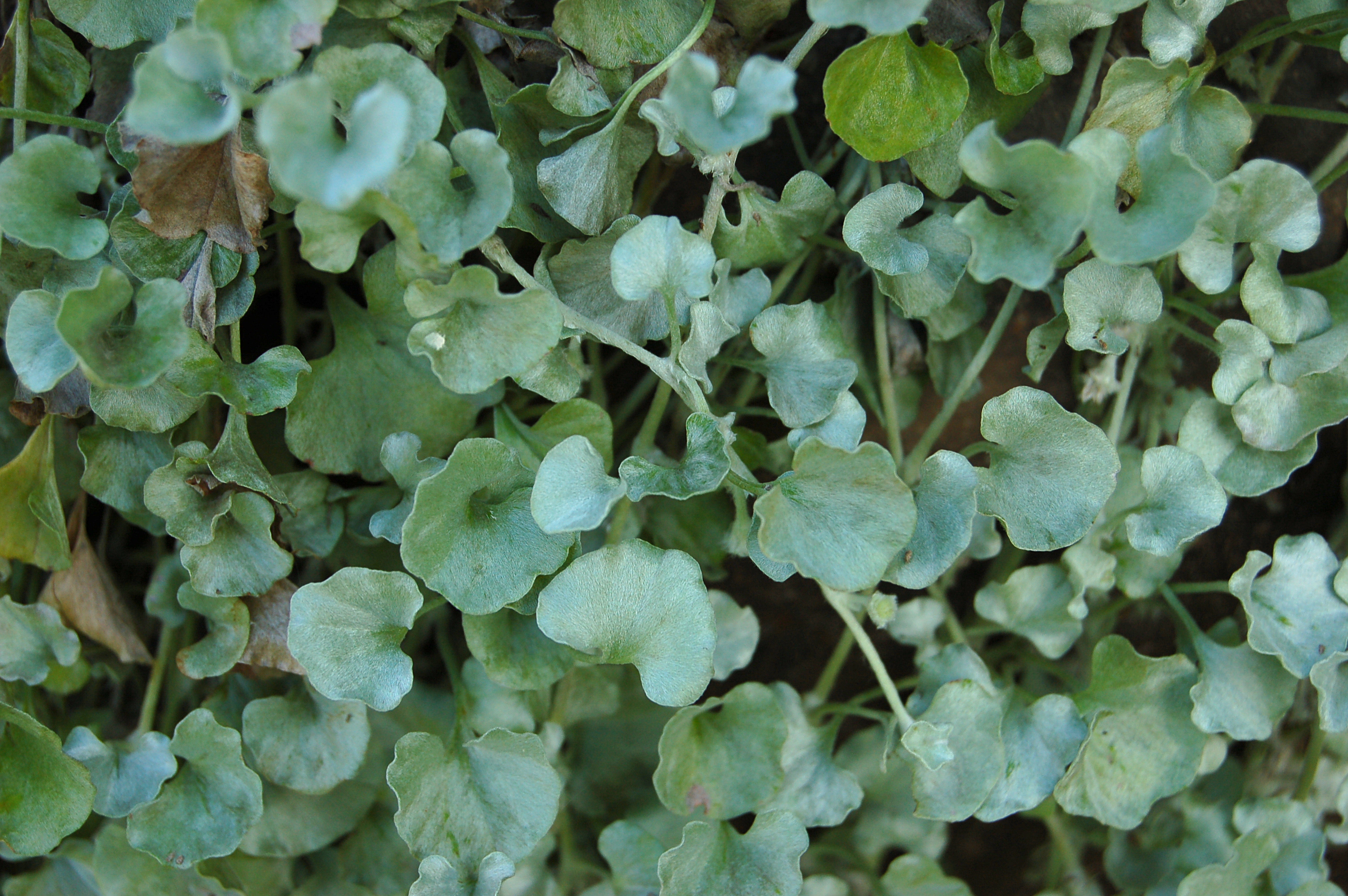 A closeup picture of the plant cultivar Dichondra argentea 'Silver Falls'. Photo taken at the Chanticleer Garden where it was identified.